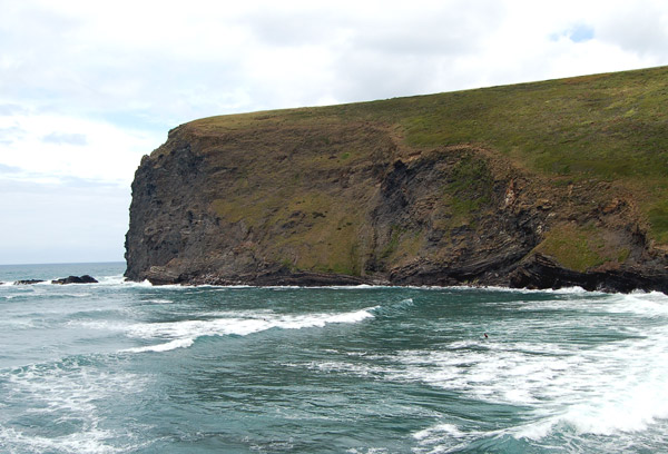 View of Pencarrow Point near Crackington Haven, Cornwall